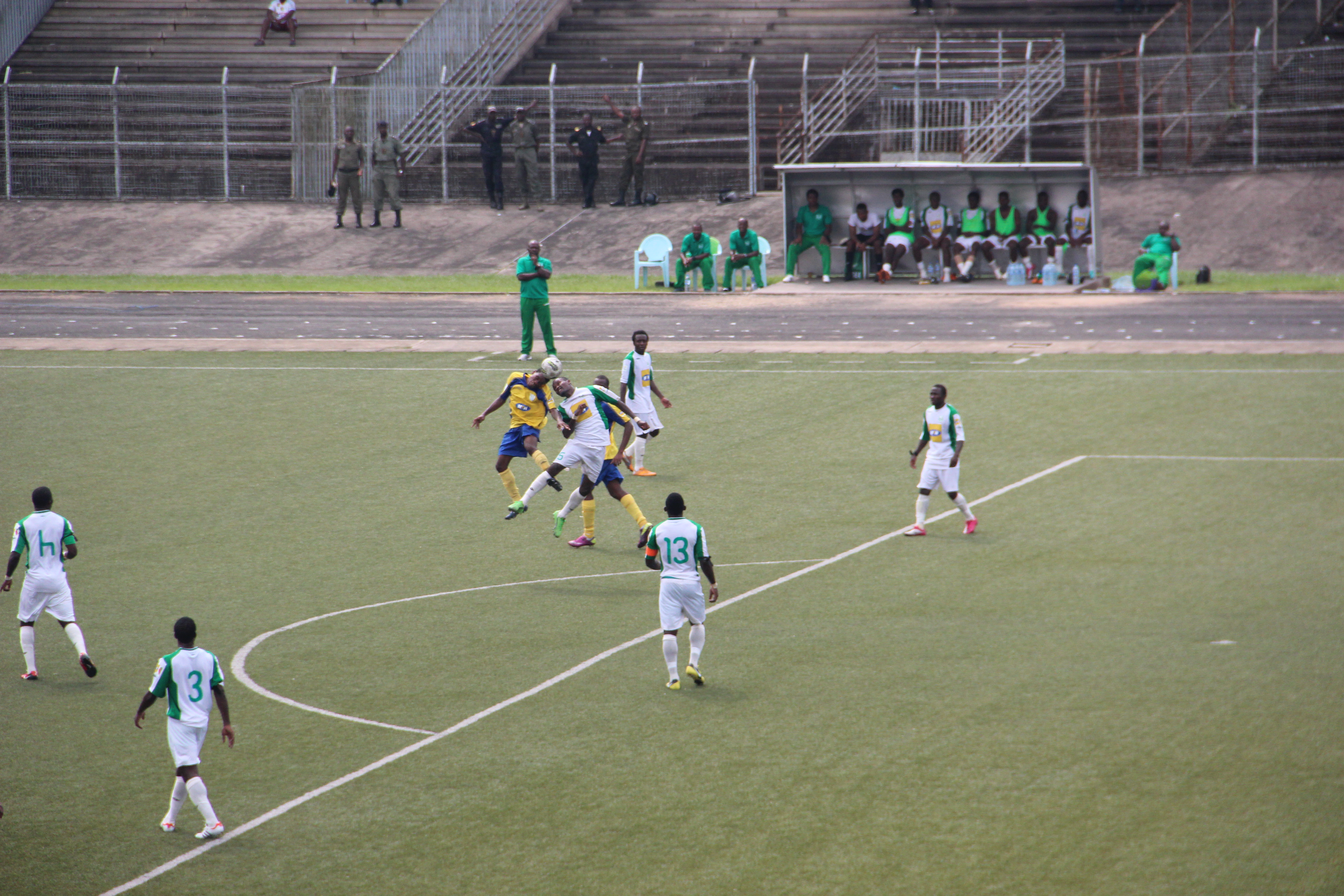 Elite One — 24 February 2013, Stade de la Réunification, Douala. Match between: Union Douala — Sable FC